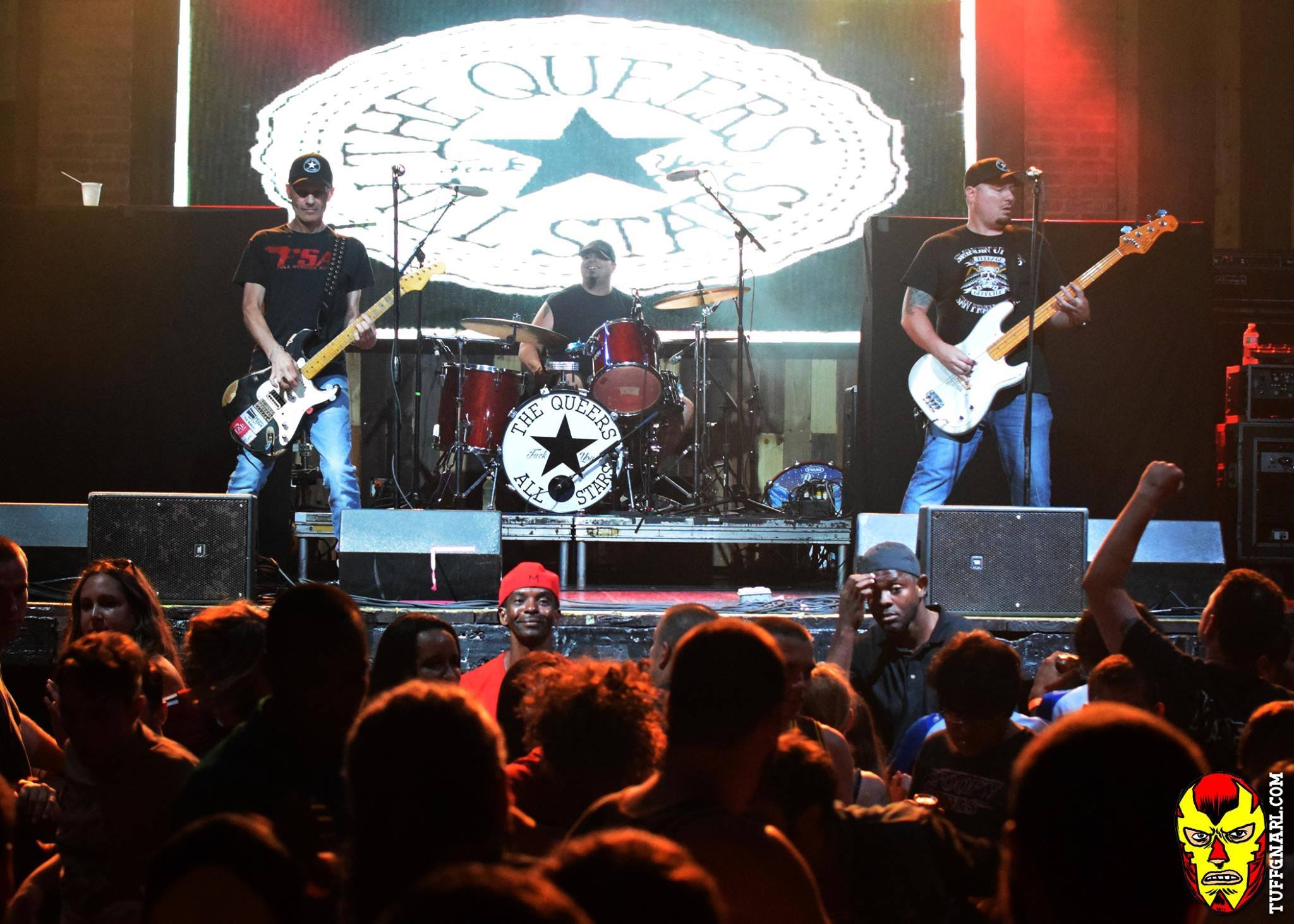 The Queers live at Revolution, West Palm Beach, FL. June 11, 2017. Photo by Chuck Livid